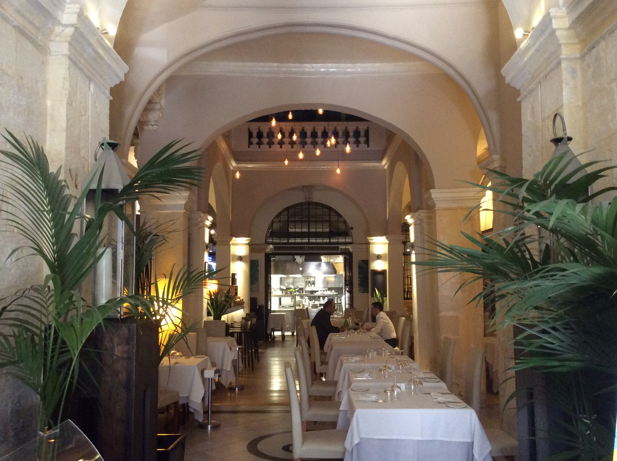 Hostel de Verdelin, restaurant